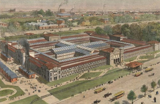 View of the Buildings and Grounds published for the Harper's Weekly. August 4 1883.